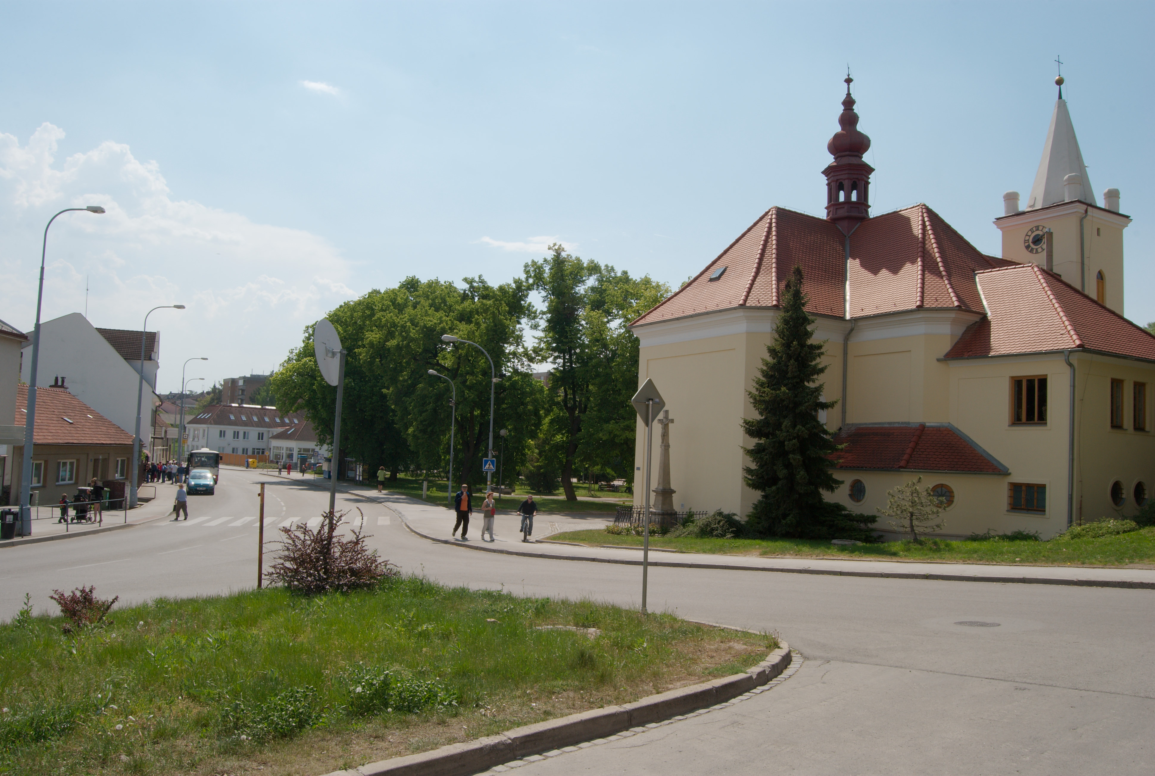 Palackého square in Řečkovice quarter in Brno, Czech Republic